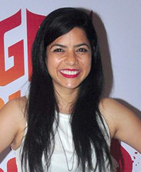 Rajshri Deshpande at media meet of 'Angry Indian Goddess'